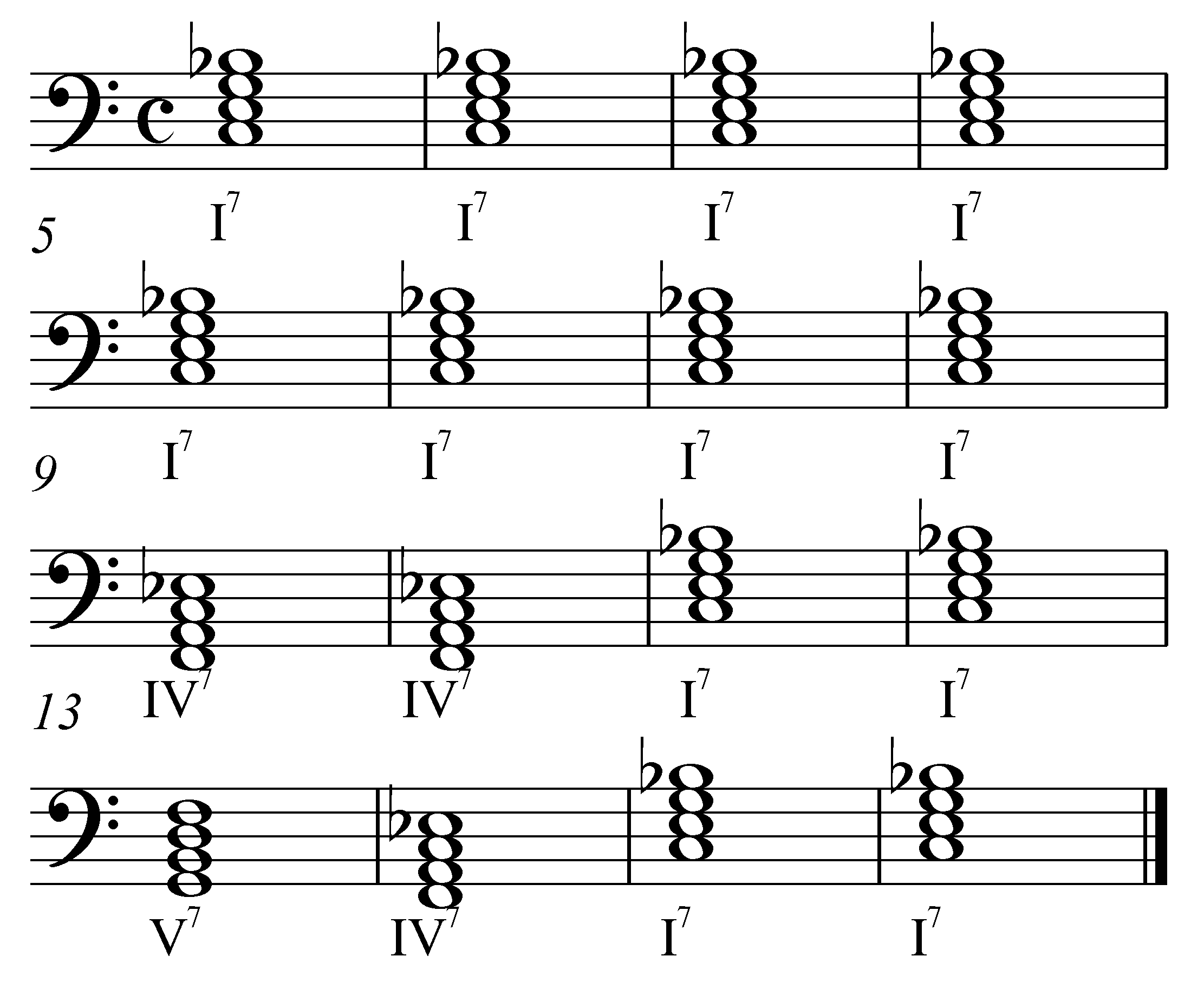 Sixteen-bar blues block chords in C. ||: I I I I - IV IV I I - V IV I I